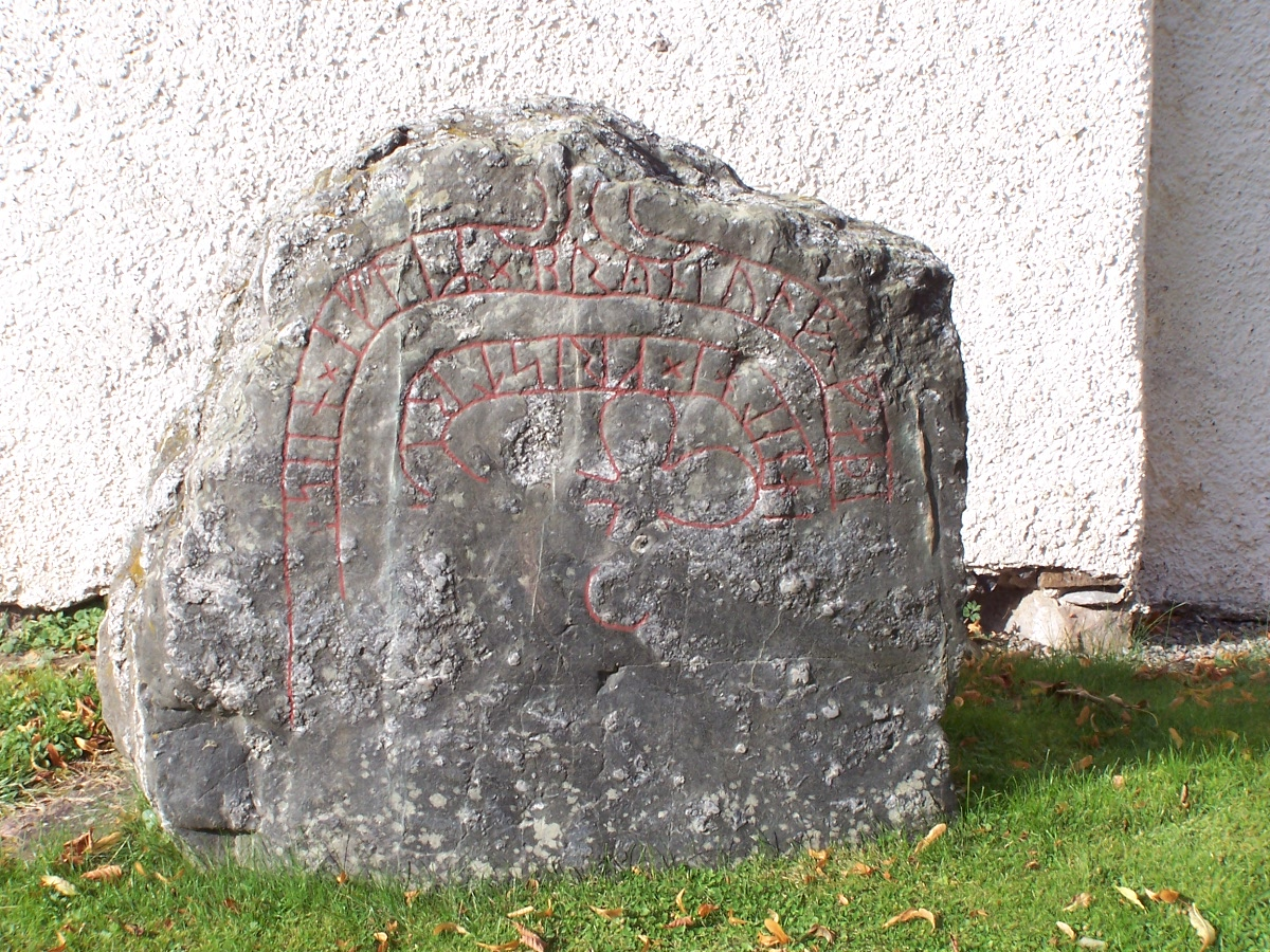 Runsten beside Bogsta kyrka, Sweden